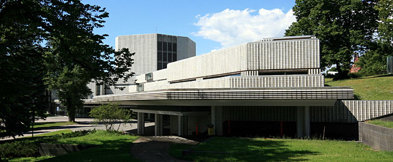 Helsinki City Theatre. Architect: Timo Penttilä. Built 1967.